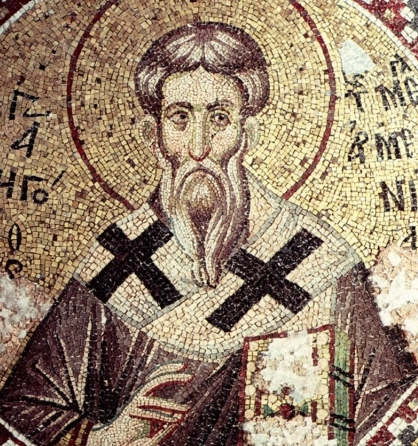 Saint Gregory the Illuminator, 14th century mosaic from the Pammakaristos Church, Constantinople (Fethiye Camii, Istanbul)